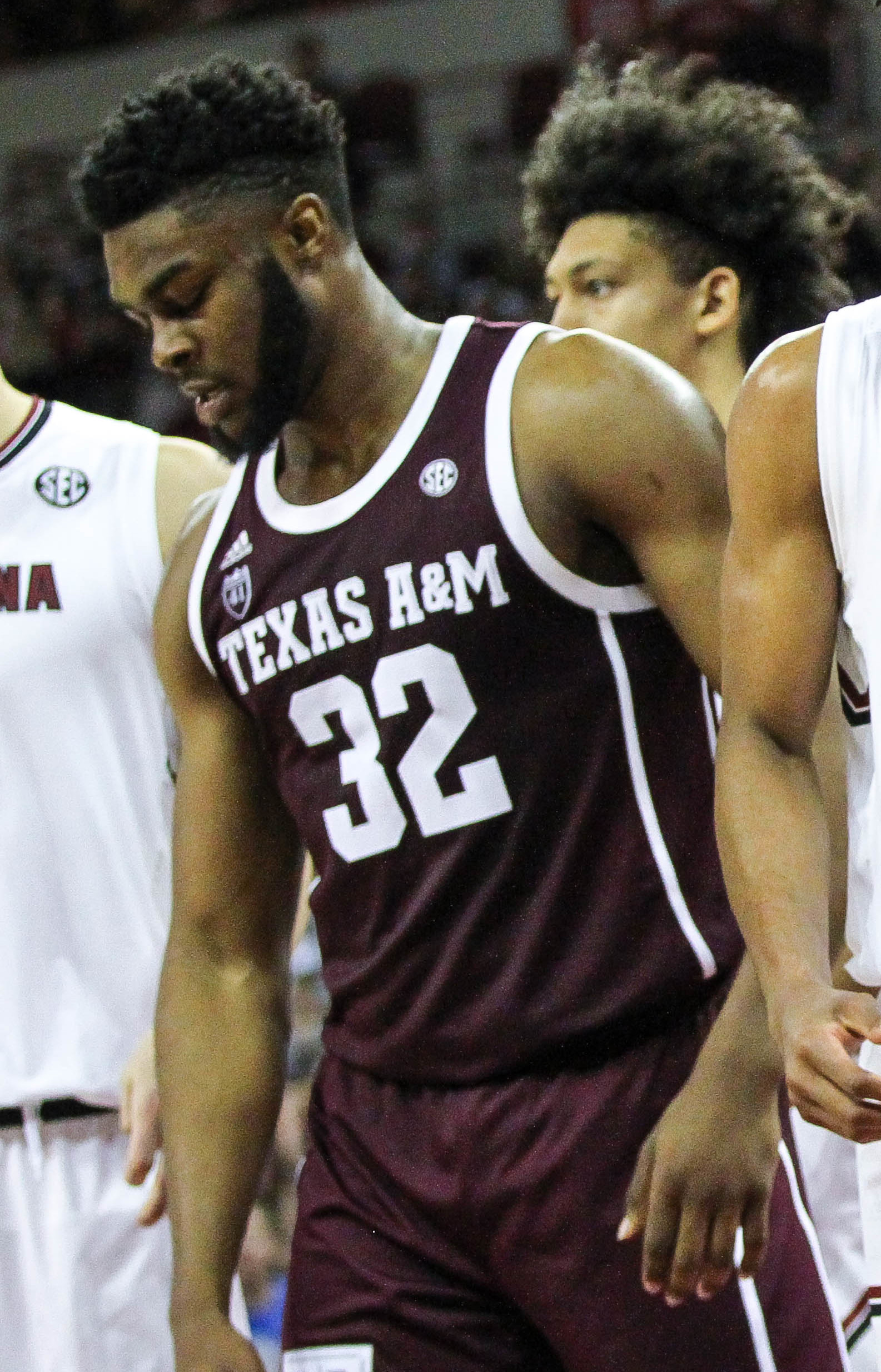 South Carolina vs. Texas A&M